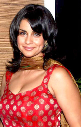 Gul Panag on the sets of "Hello Darling"